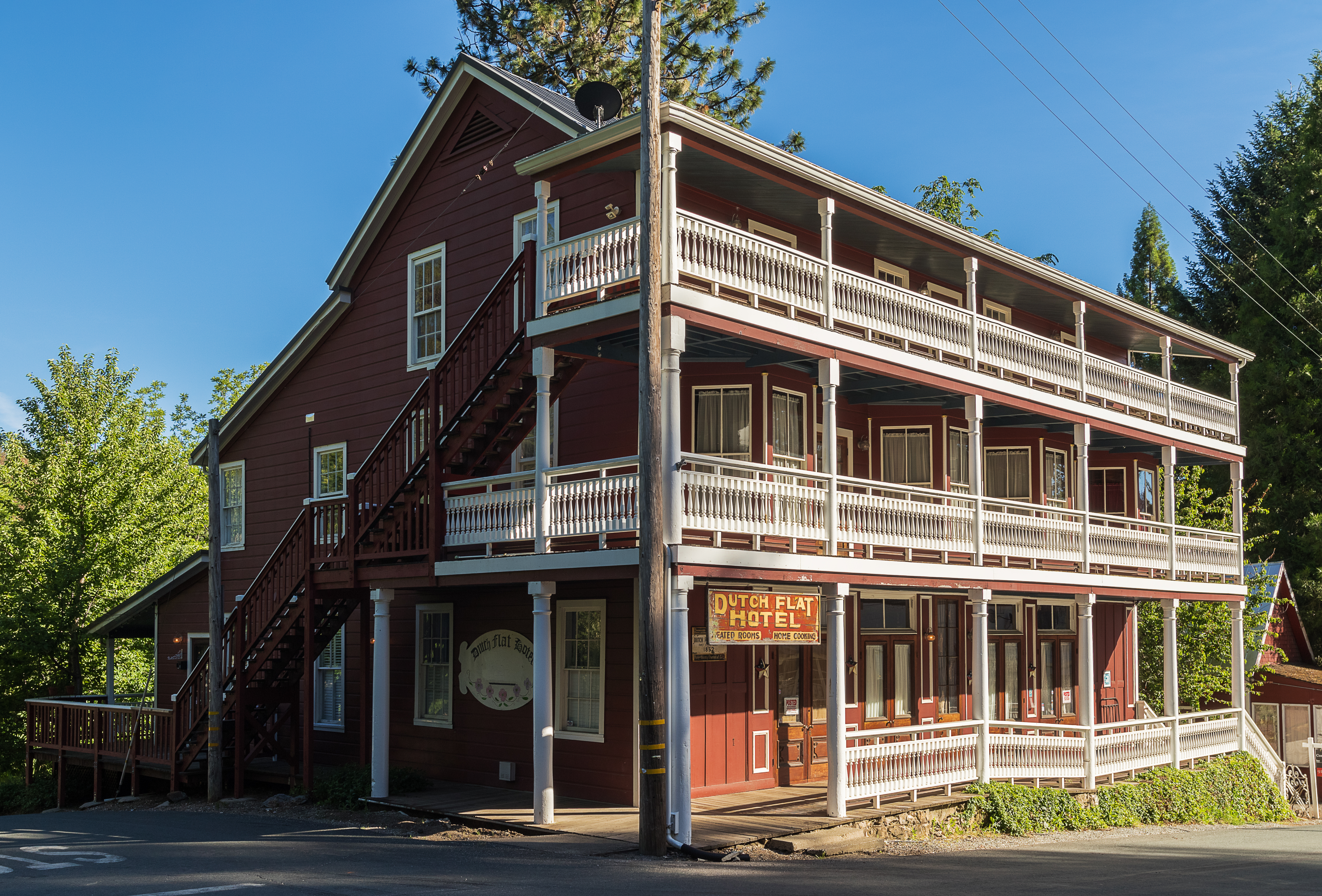 Dutch Flat Hotel, Placer County, California. The hotel was built in 1852 when Dutch Flat was one the largest hydraulic gold mining towns in California. The building was restored in 2003.